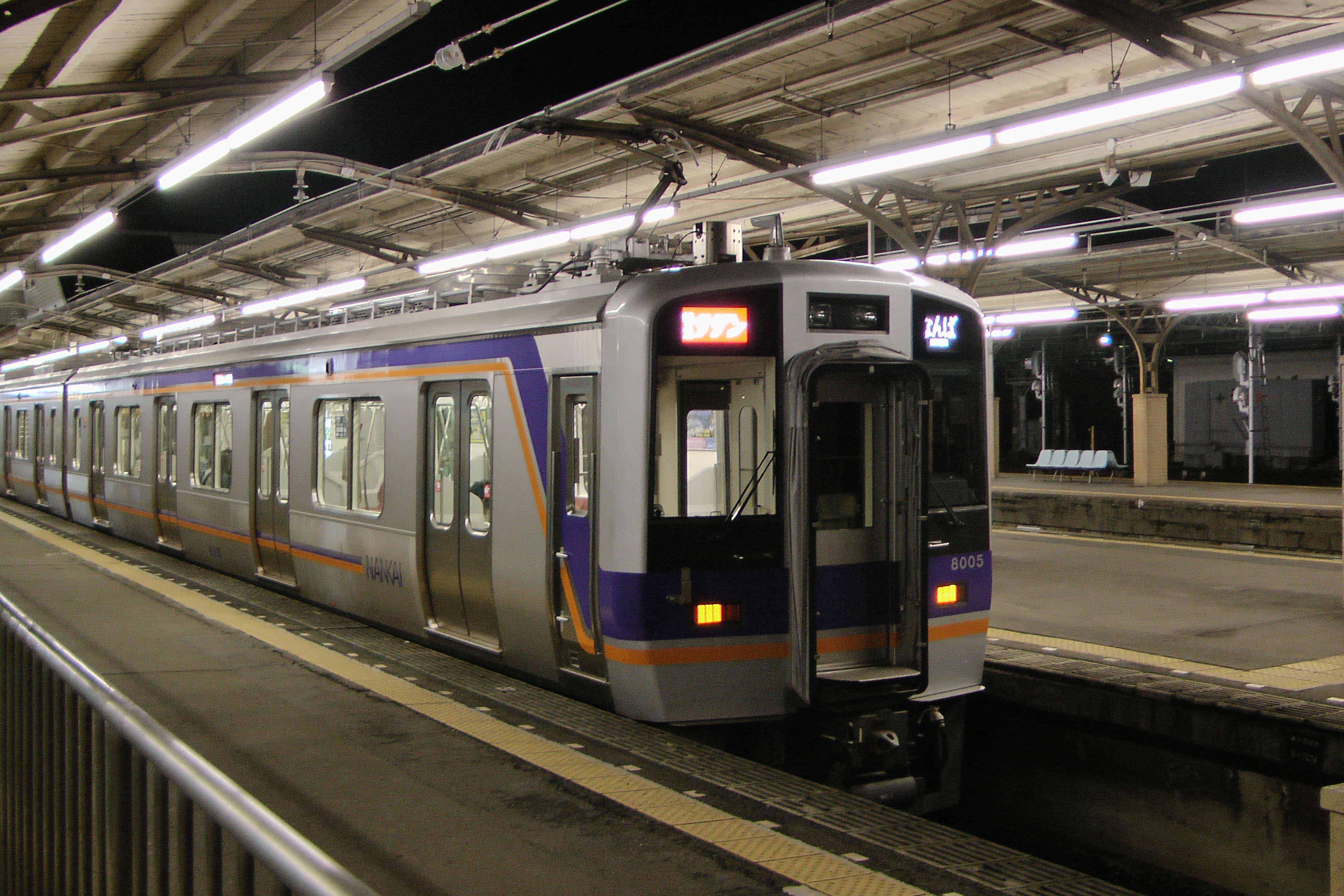 Nankai 8000 series EMU set 8005 forming the non-reserved seating cars of a "Southern" limited express service at Wakayamashi Station